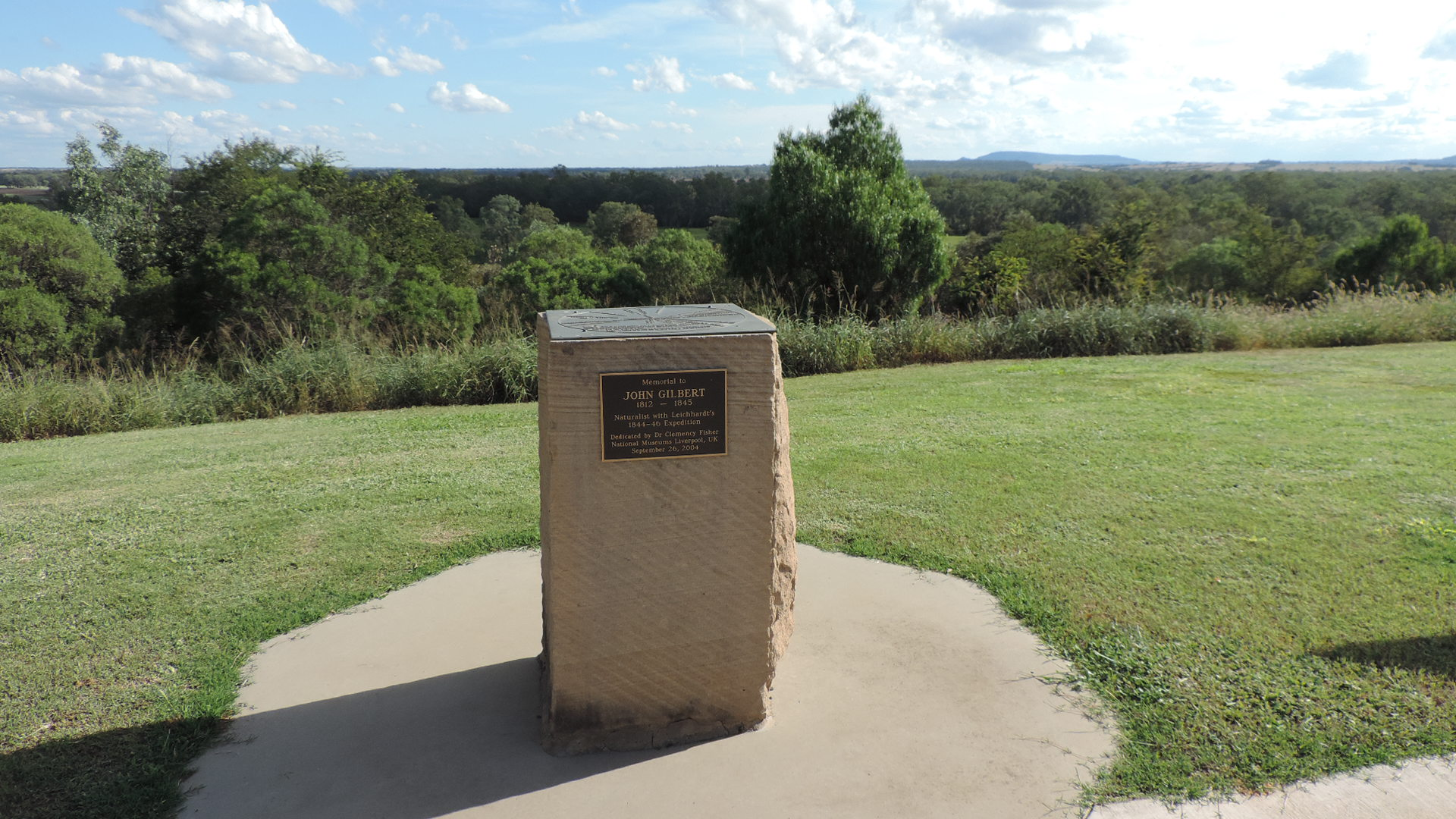 John Gilbert was a member of Ludwig Leichhardt's 1844 expedition. He was killed near the Gulf of Carpentaria having been speared by a native.